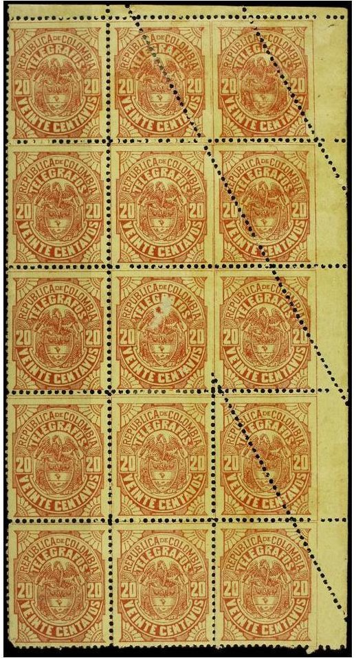 Colombia telegraph stamps in block with misperf. Circa 1902.